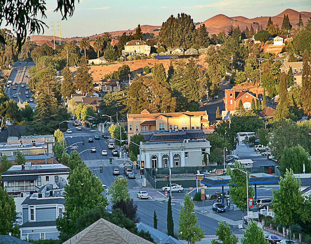 Downtown Pinole